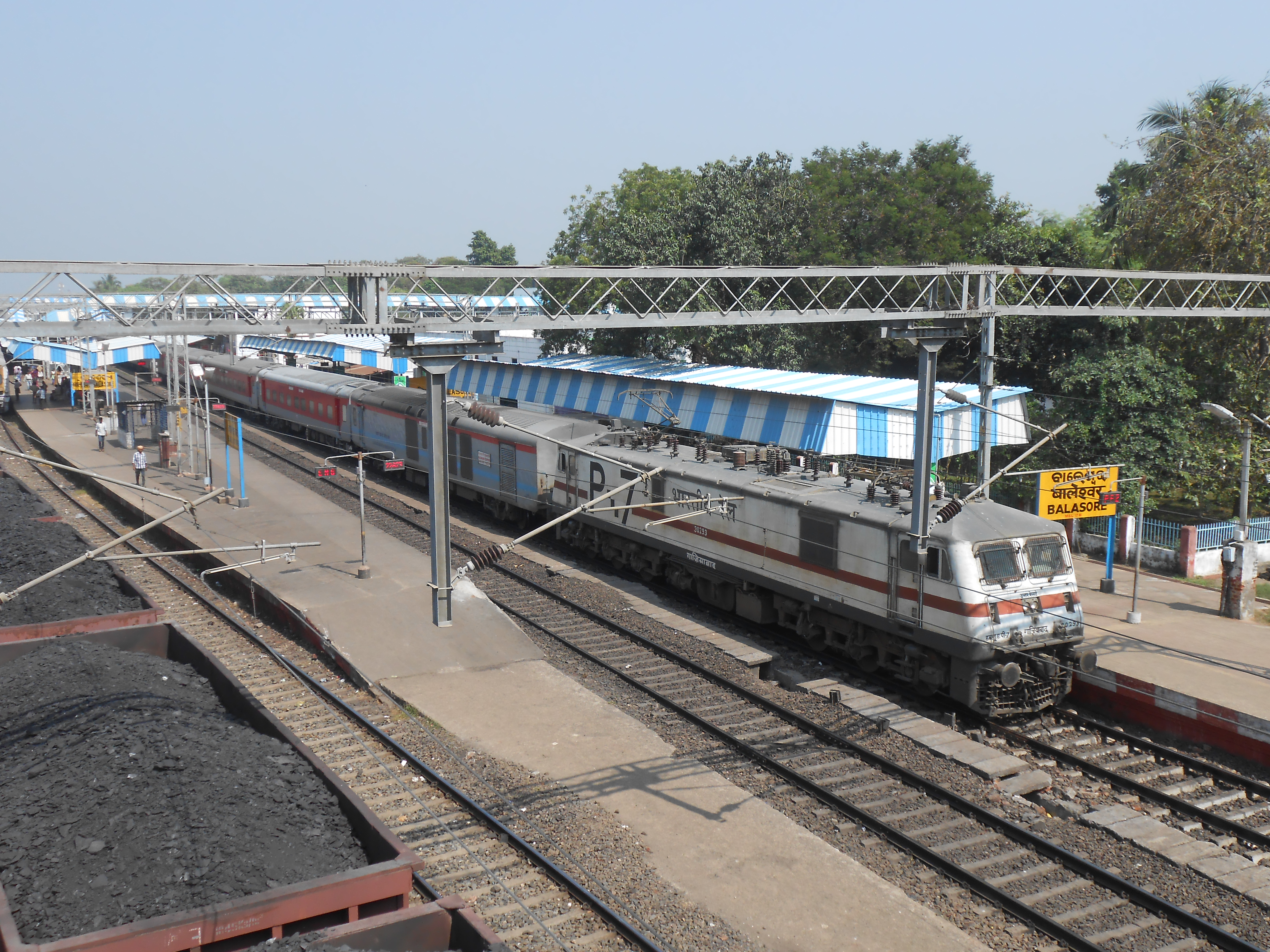 NDLS-BBS Rajdhani express at Balasore with a GZB WAP-7